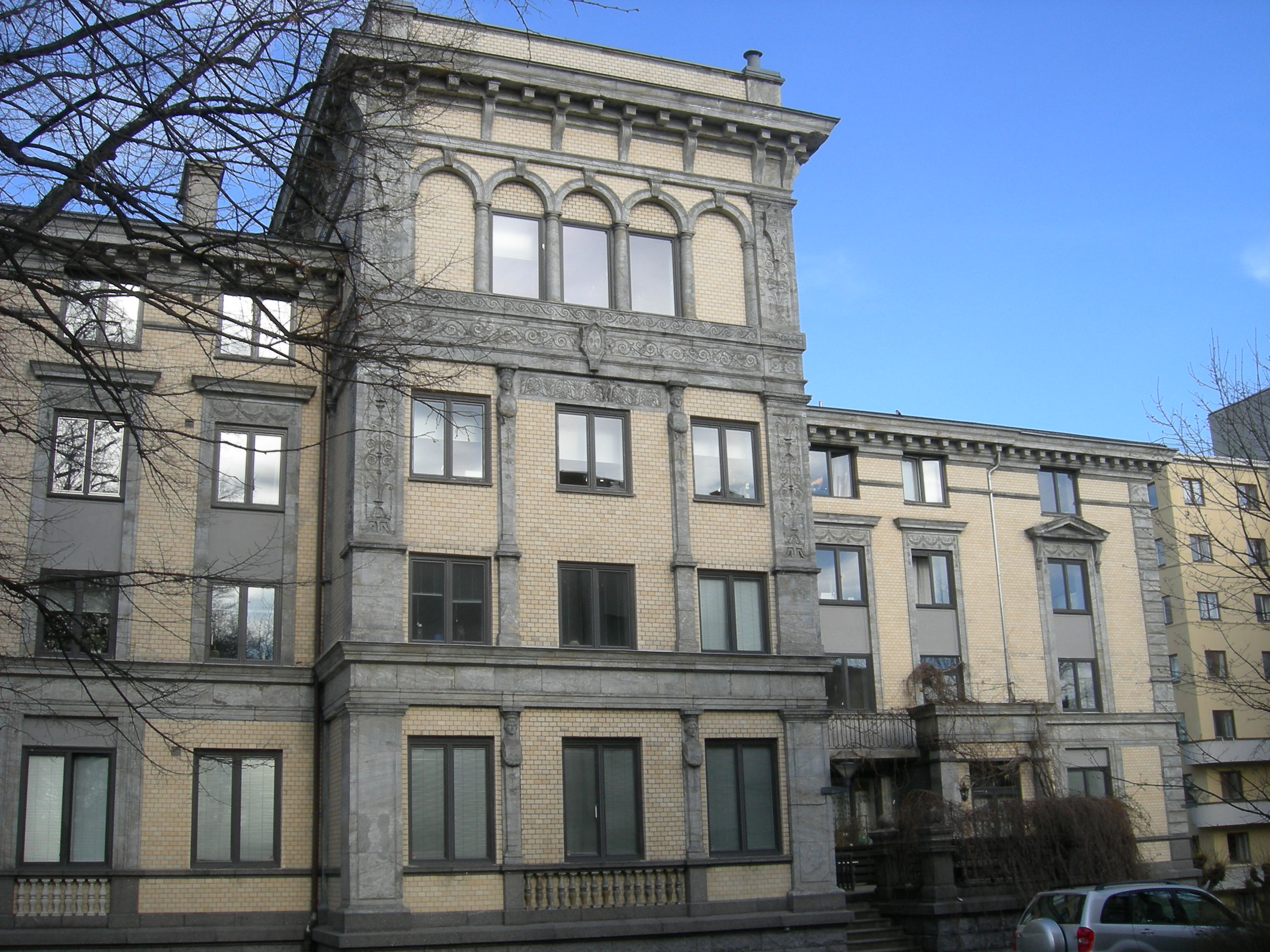 Egebergslottet ("The Egeberg Castle"), built 1900, Akersveien 24B, Oslo